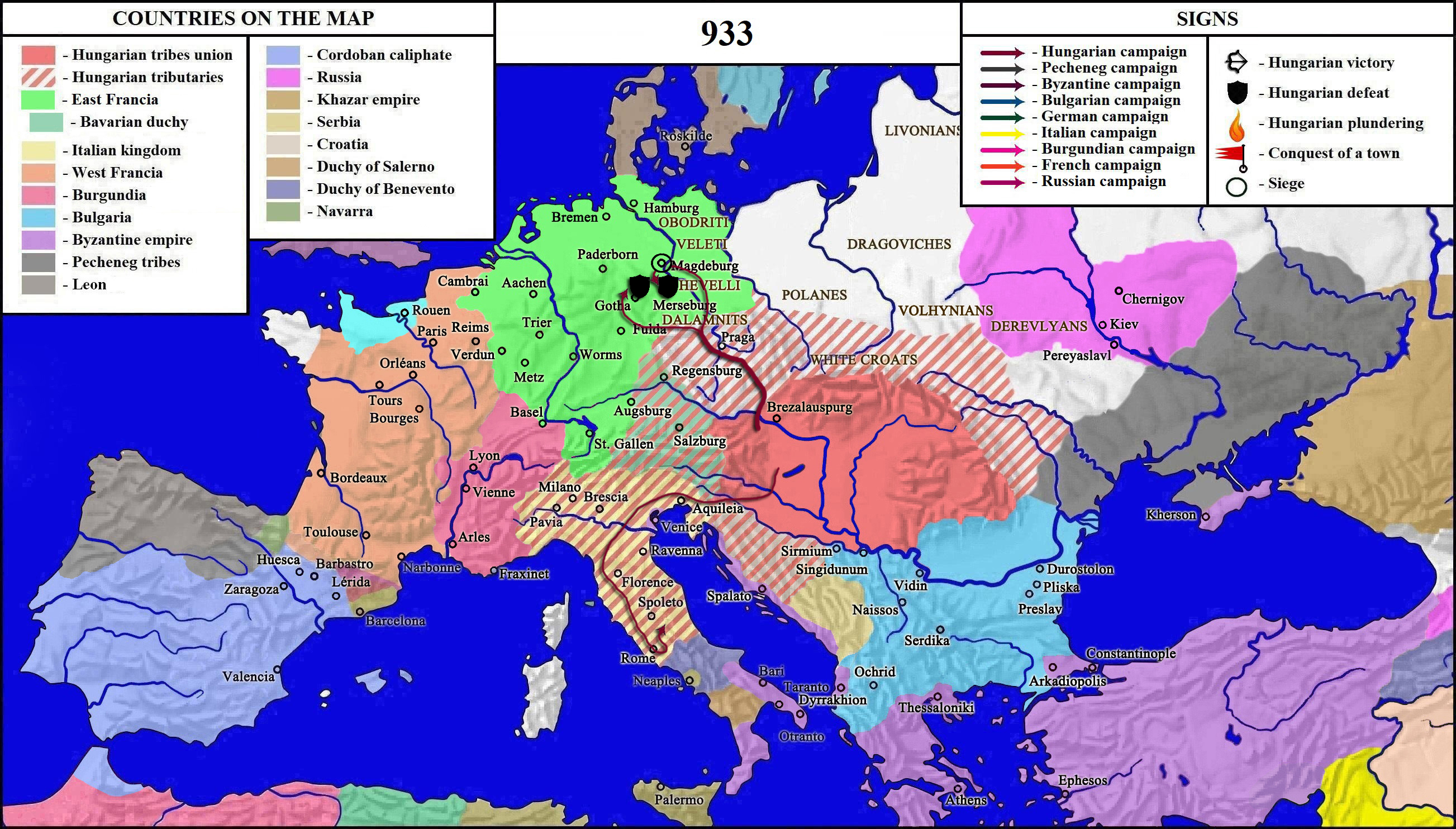 The Hungarian campaigns of 933 against the German Kingdom and the Battle of Merseburg. The first unsuccesful Hungarian campaign in Europe.